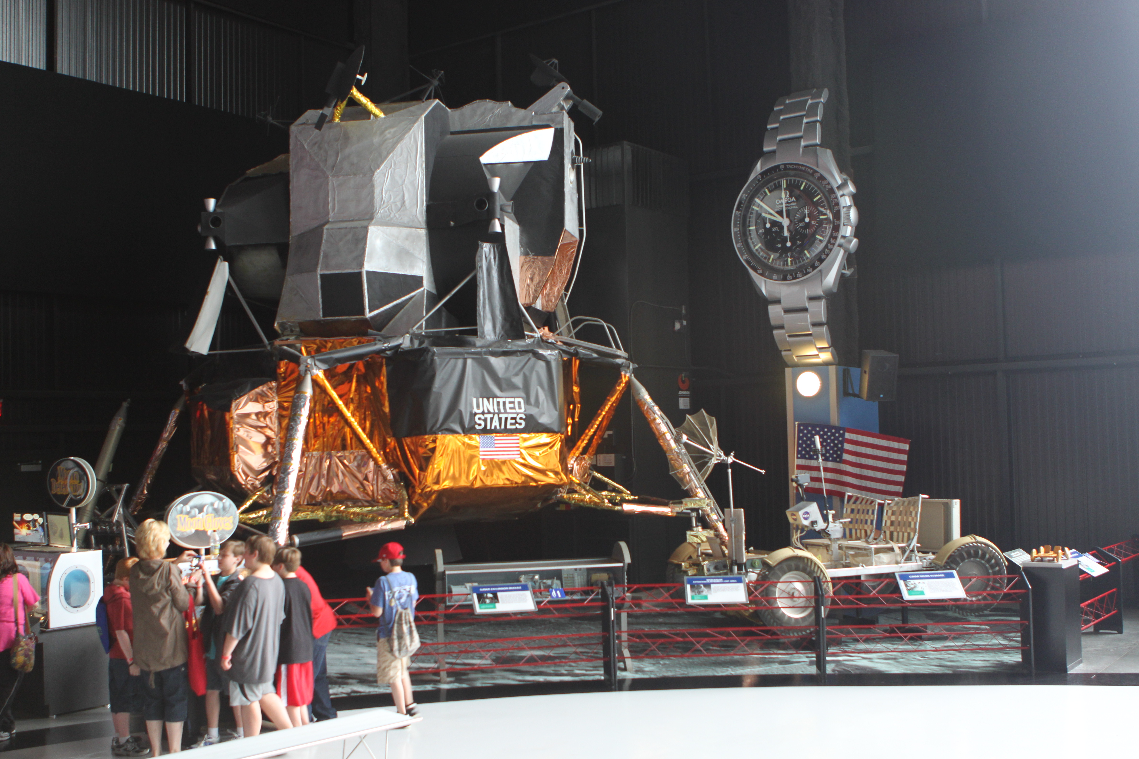 MSFC 76545 is the landing stage test article of this Apollo Lunar Module. The ascent stage is a museum fabrication. Also on display in this area are a lunar rover and Moon dust for interactive examination (surrounded by visitors), and a really big replica of an Omega watch like that worn by astronauts on moon missions.